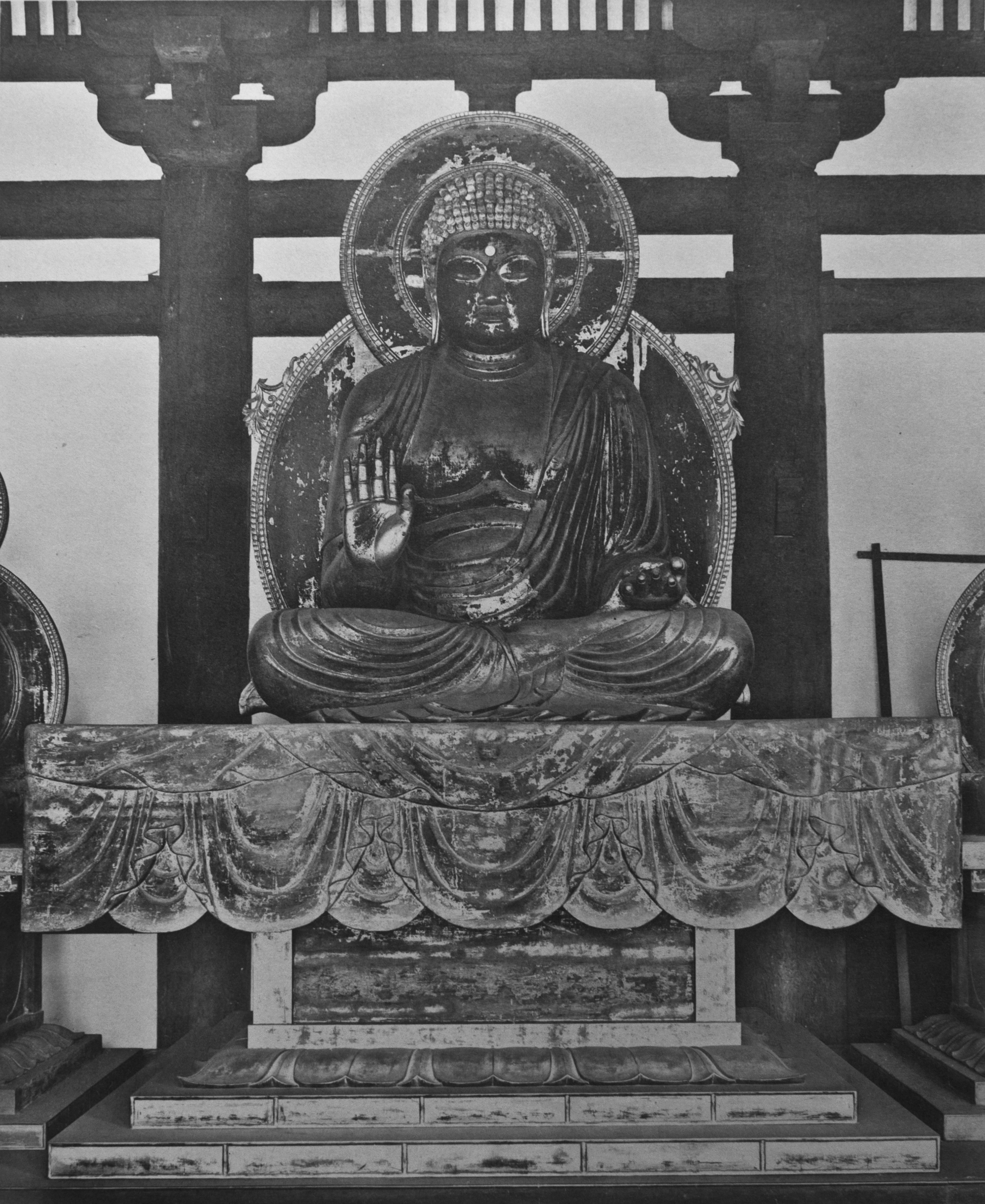 Shaka Nyorai (National Treasure), Kami no Midō, Hōryū-ji, Nara Prefecture, Japan